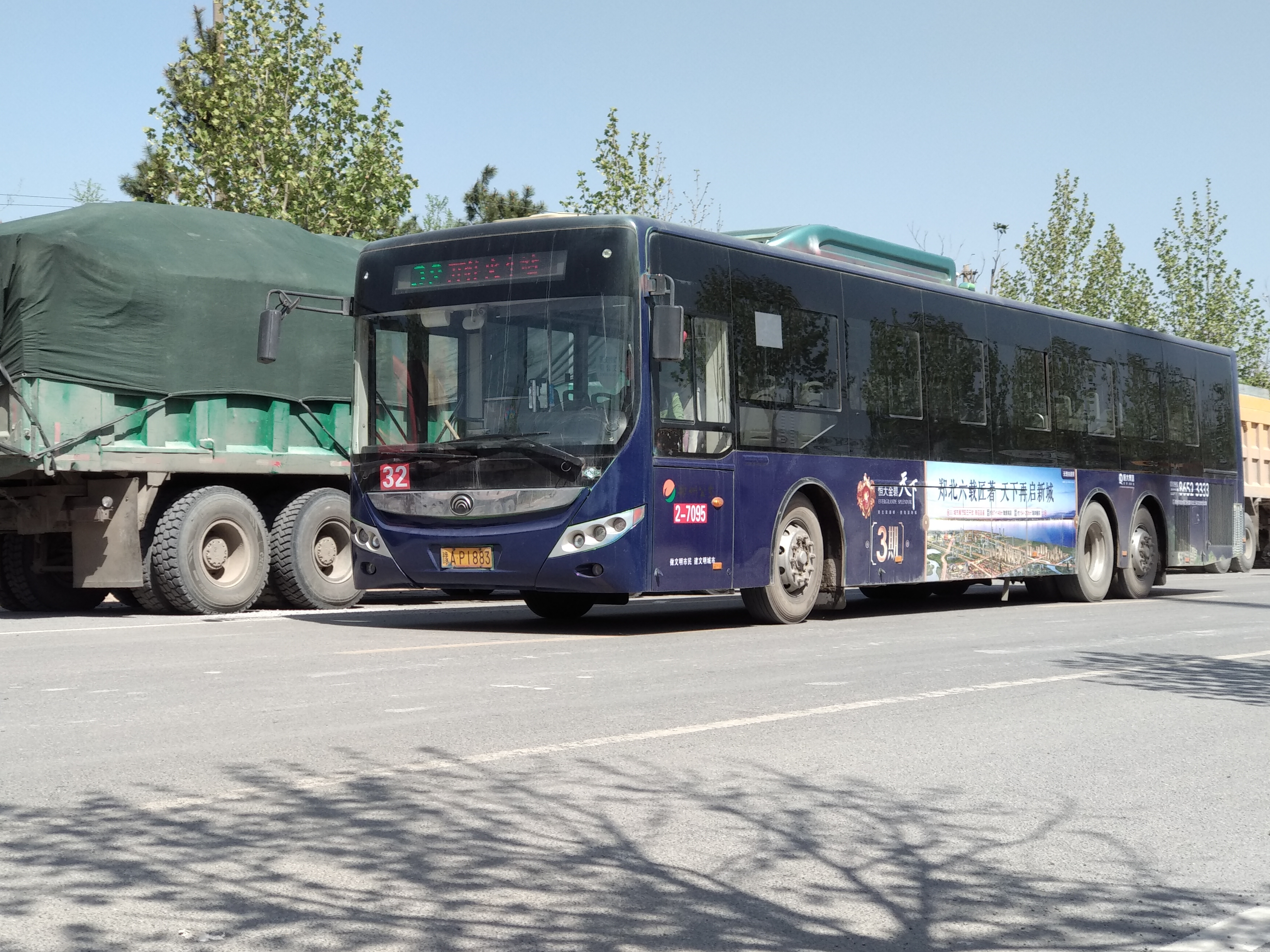 Route 32 from Zhengzhou Railway Station.